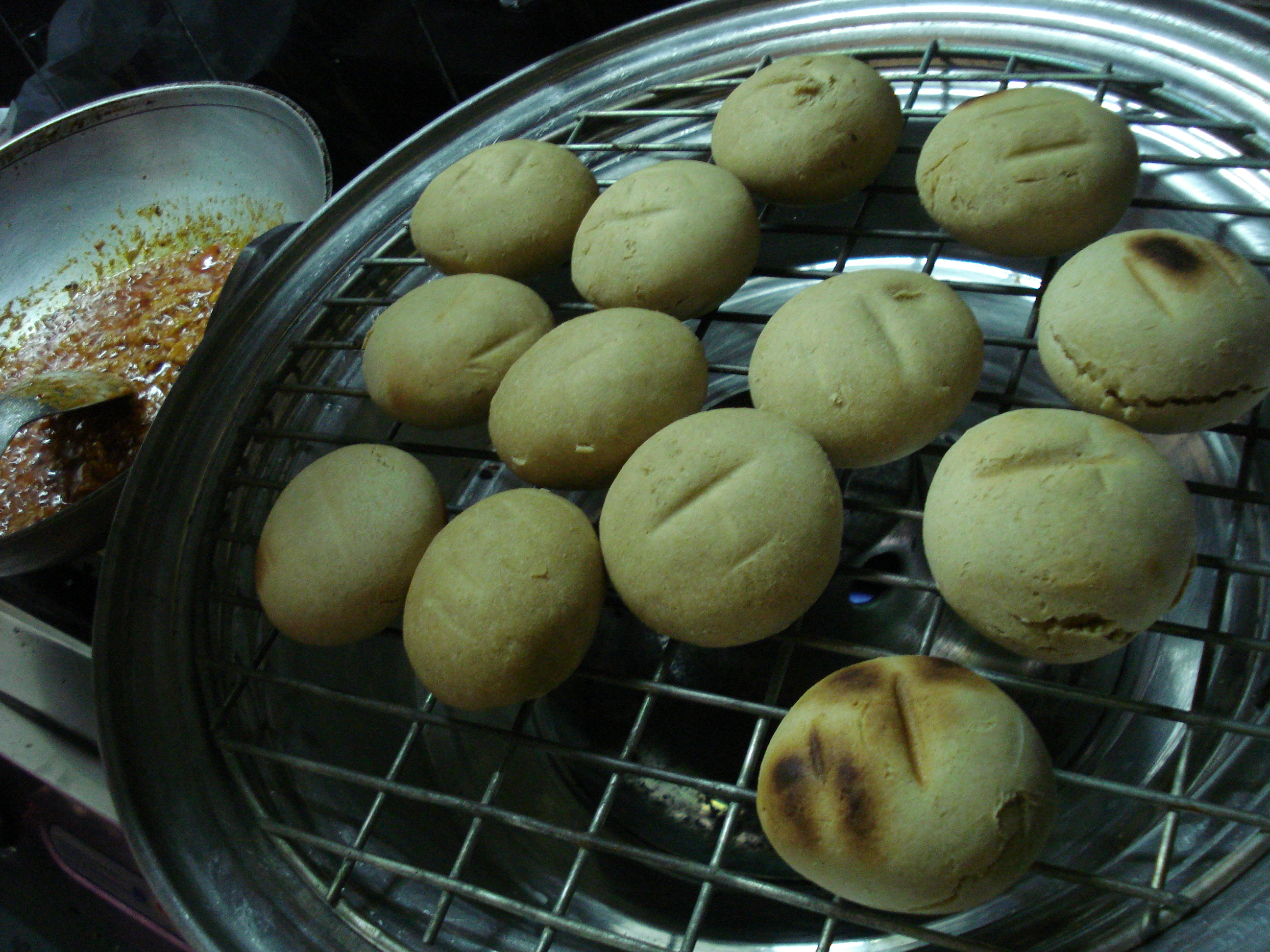 A Bihari snack. Filled with ghee.